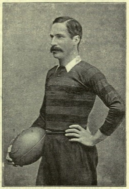 A picture of Andrew Stoddart, captain of both the England rugby union team, and England Cricket Team.